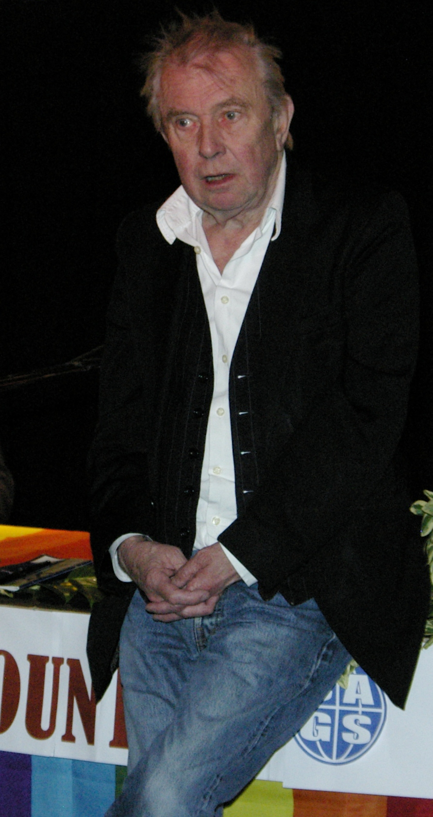 Ray Gosling, writer and broadcaster, speaking at a meeting of Croydon Area Gay Society, at The Brief, George Street, Croydon, UK, 2 December 2008